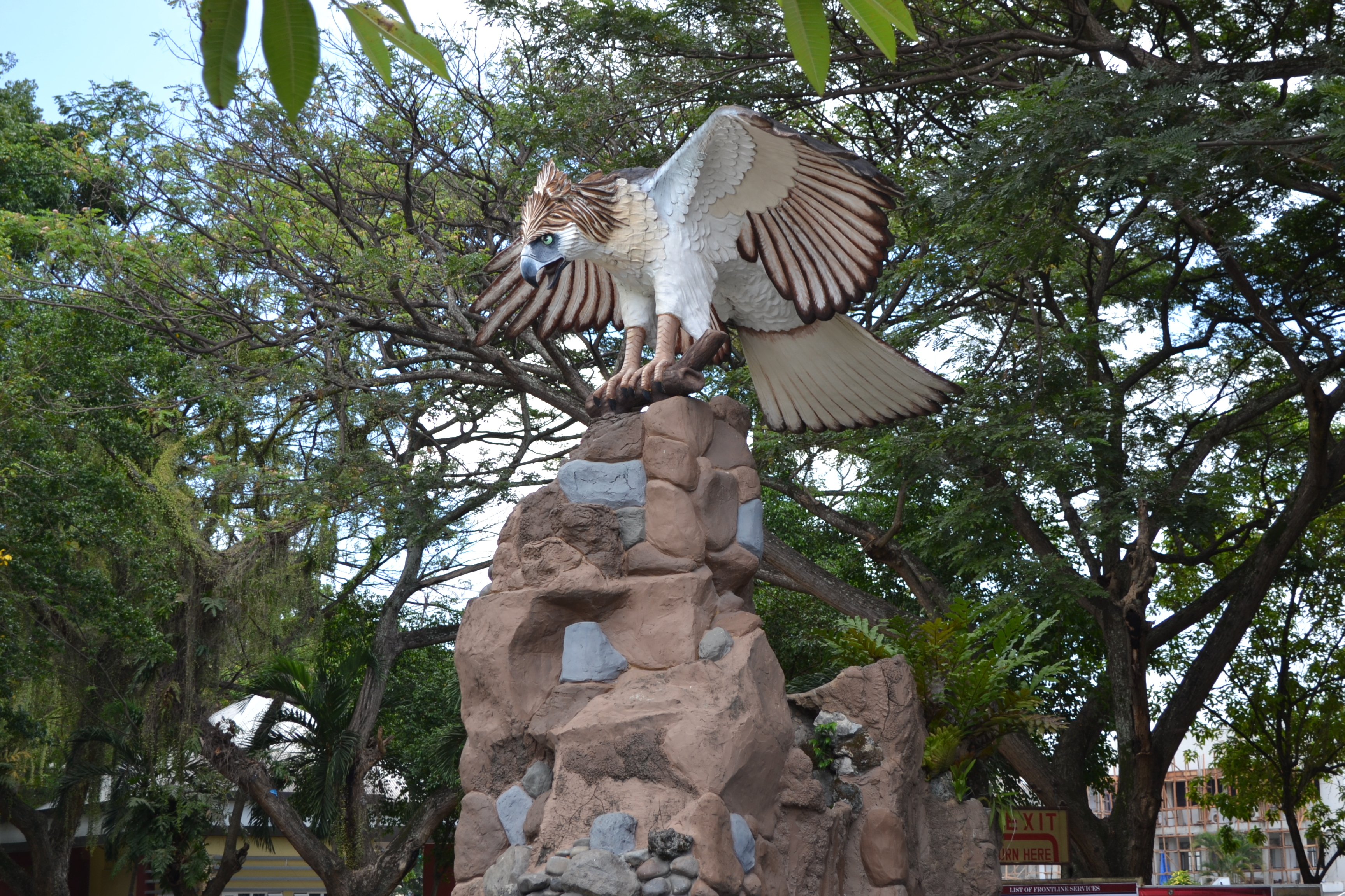 The eagle at the entrance of the University of Southeastern Philippines Obrero Campus, as shot from the vicinity of the offices near Gate 1 of the campus.